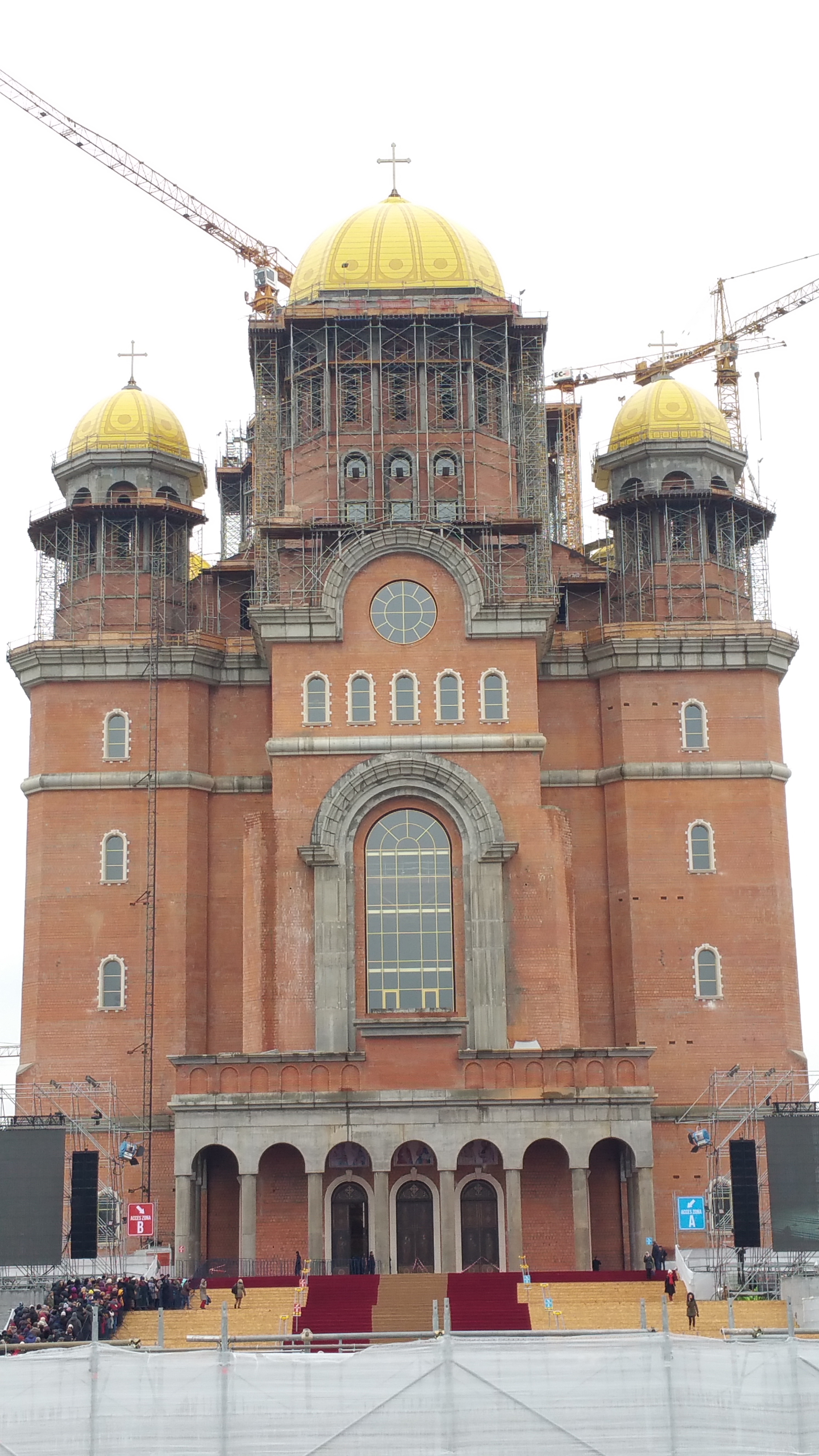 People's Salvation Cathedral - Days of consecration